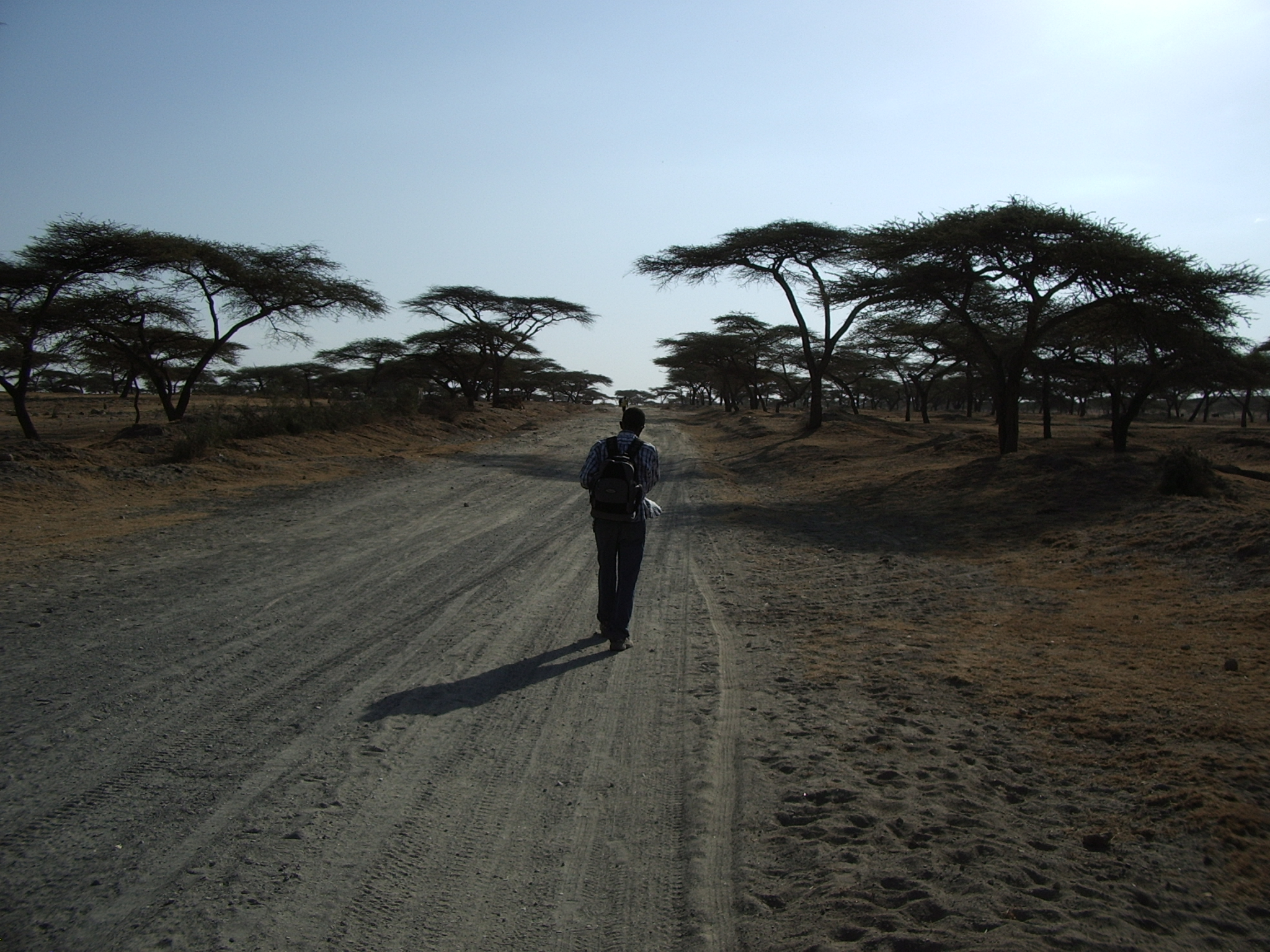 Ethiopia - Steppe near Lake Langano